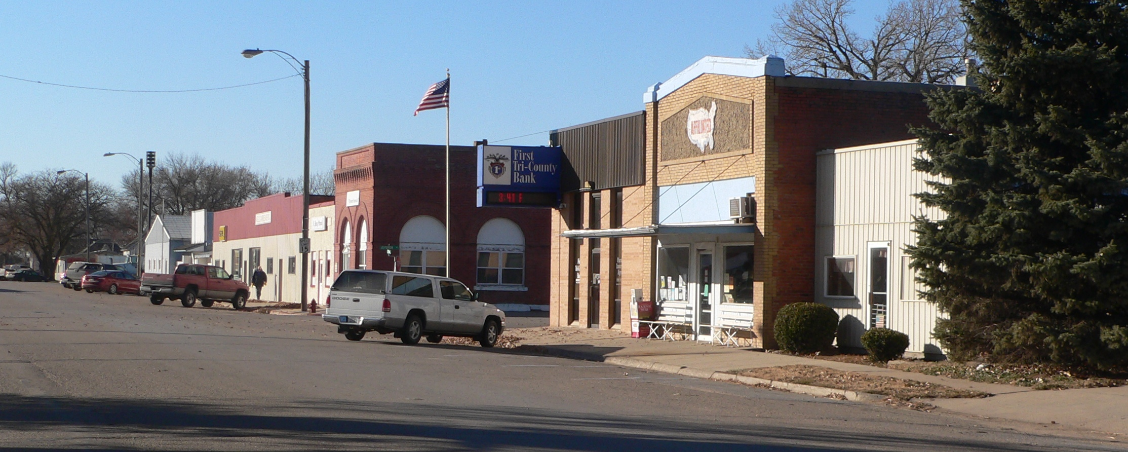 Downtown Plymouth, Nebraska: north side of Main Street, looking generally westward from about Jefferson Avenue.